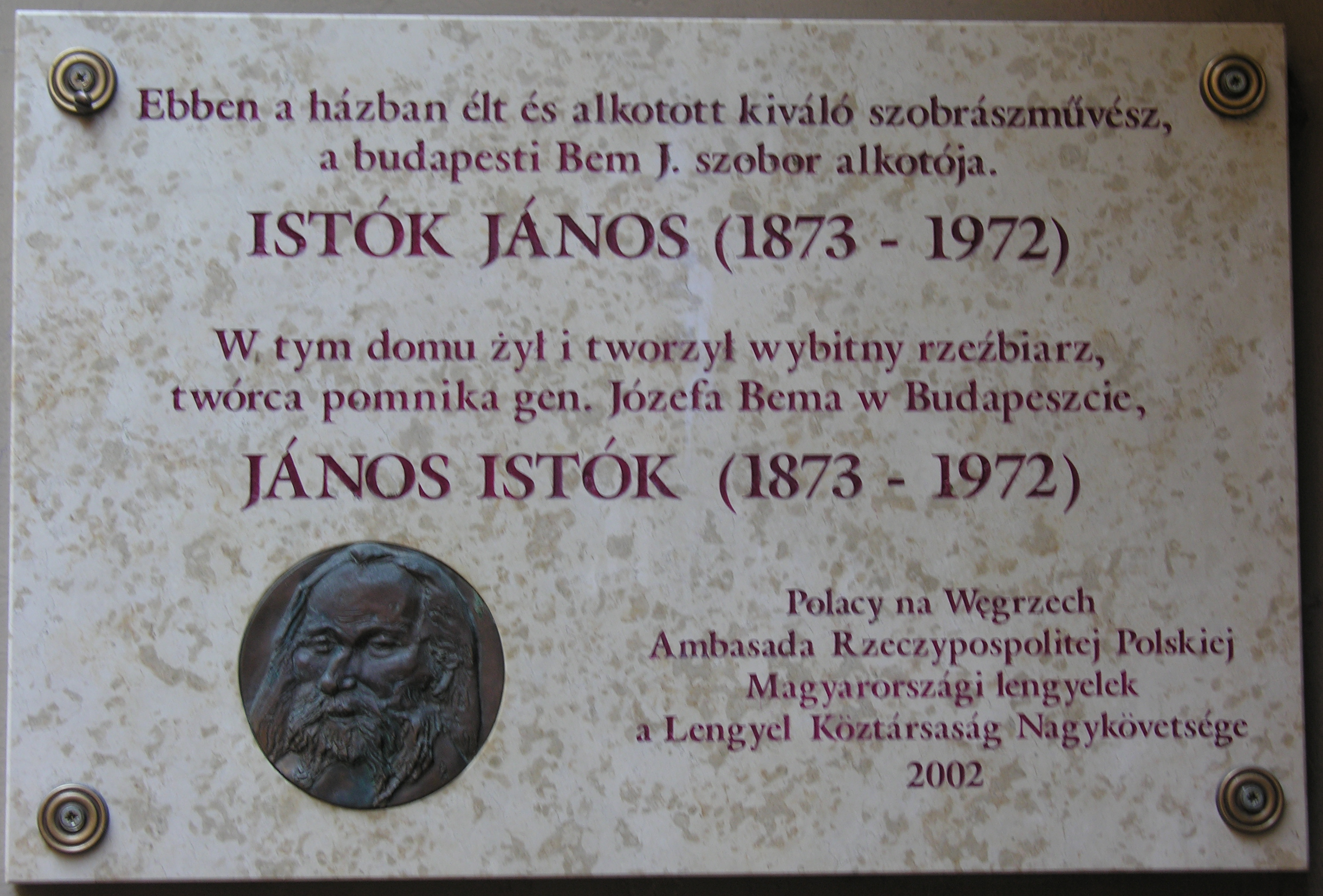 Commemorative plaque of János Istók in Budapest District IX, Ráday Street No 22